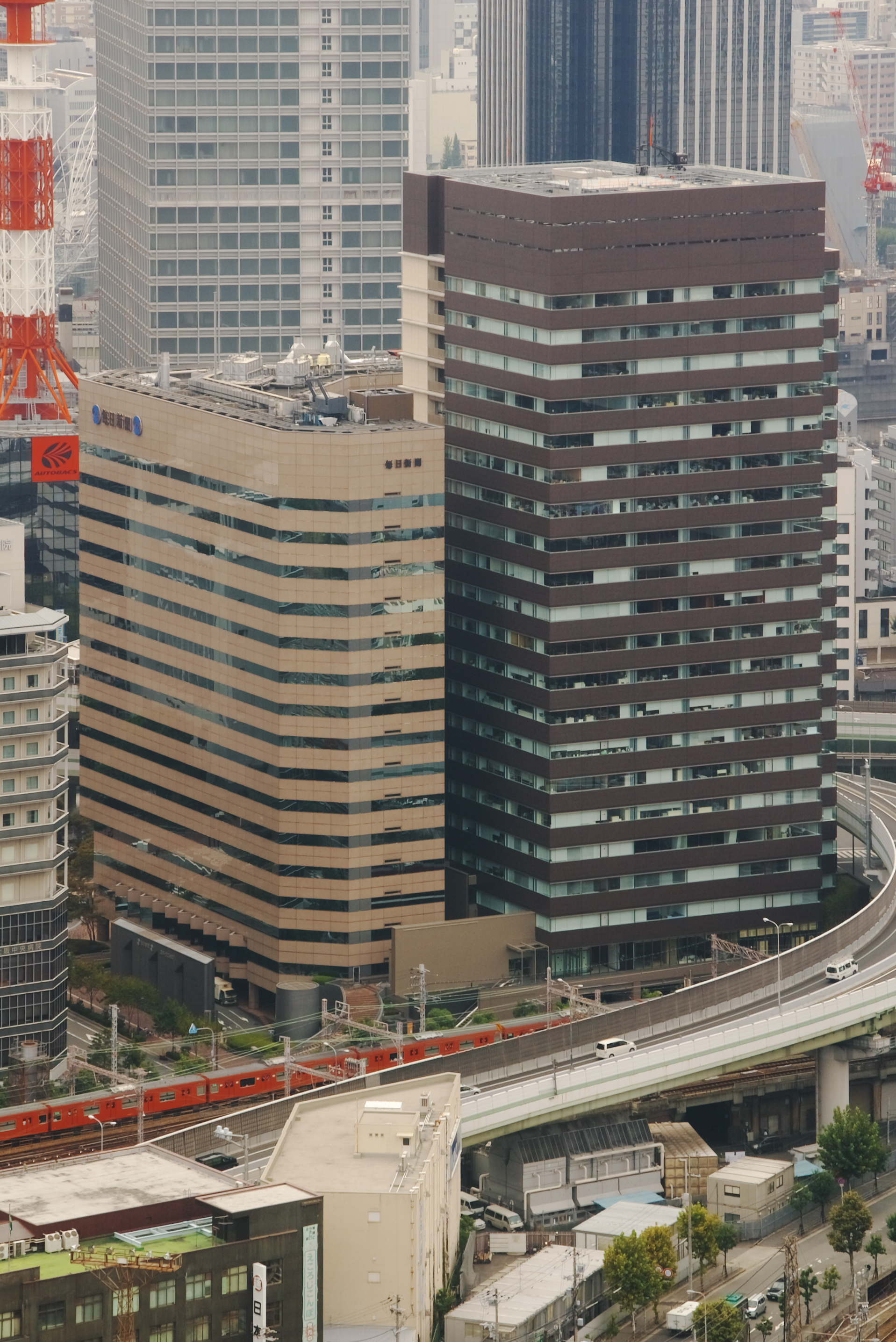 Photograph of Mainichi Shimbun Building (left) and Mainichi Intecio (right) in Kita-ku, Osaka, Osaka Prefecture, Japan.